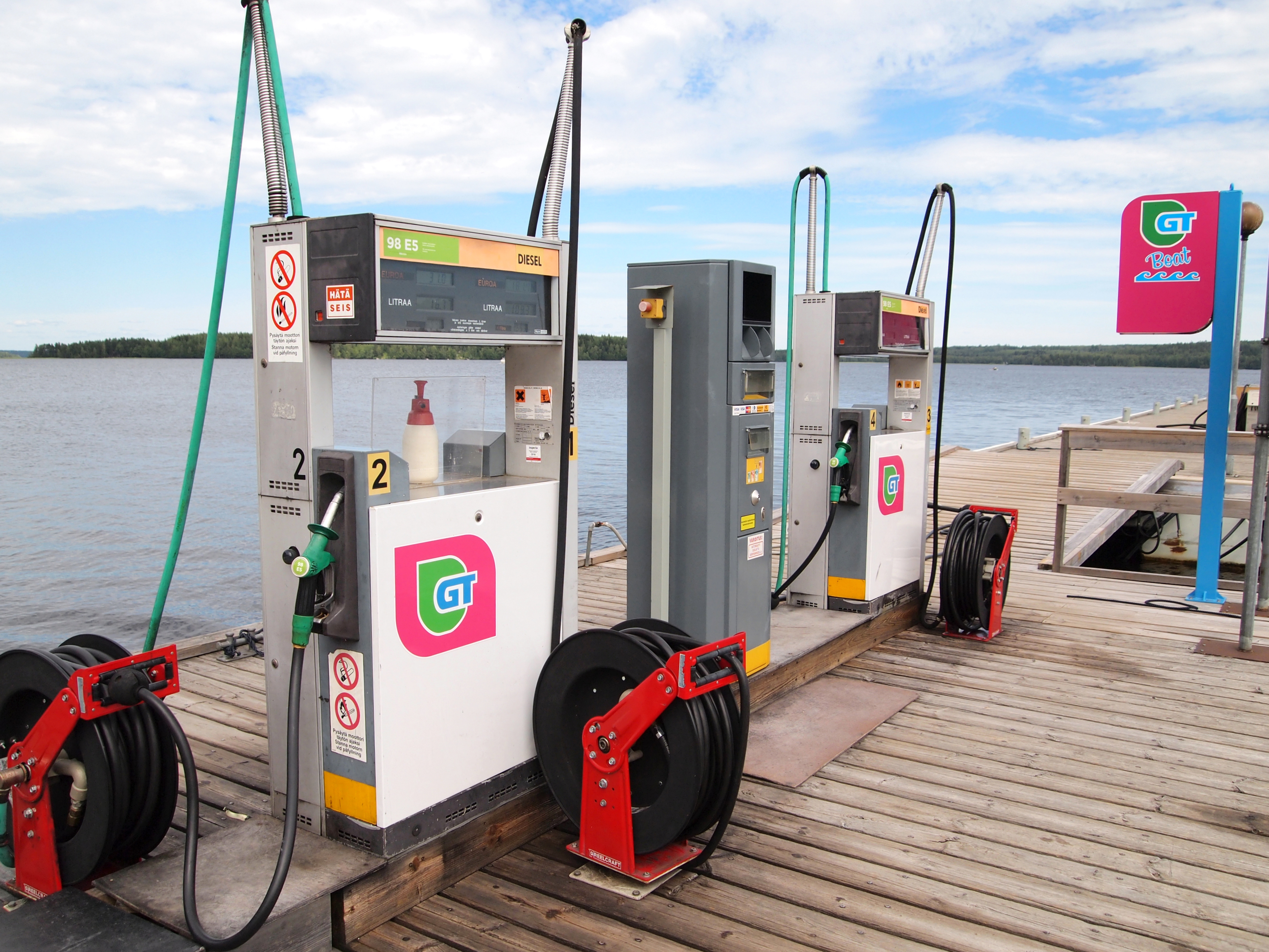 GT filling station on Vääksy harbour, Asikkala. This photograph was taken with an Olympus E-PL1